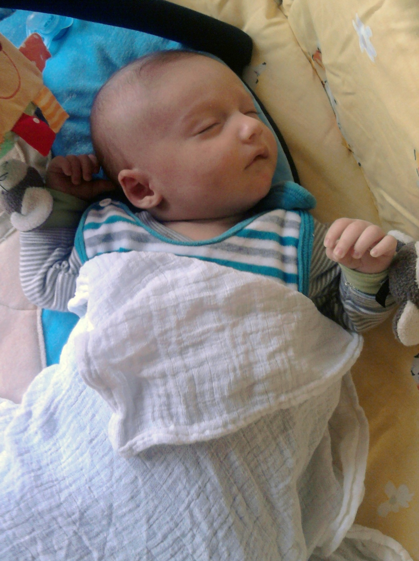 8 weeks old baby